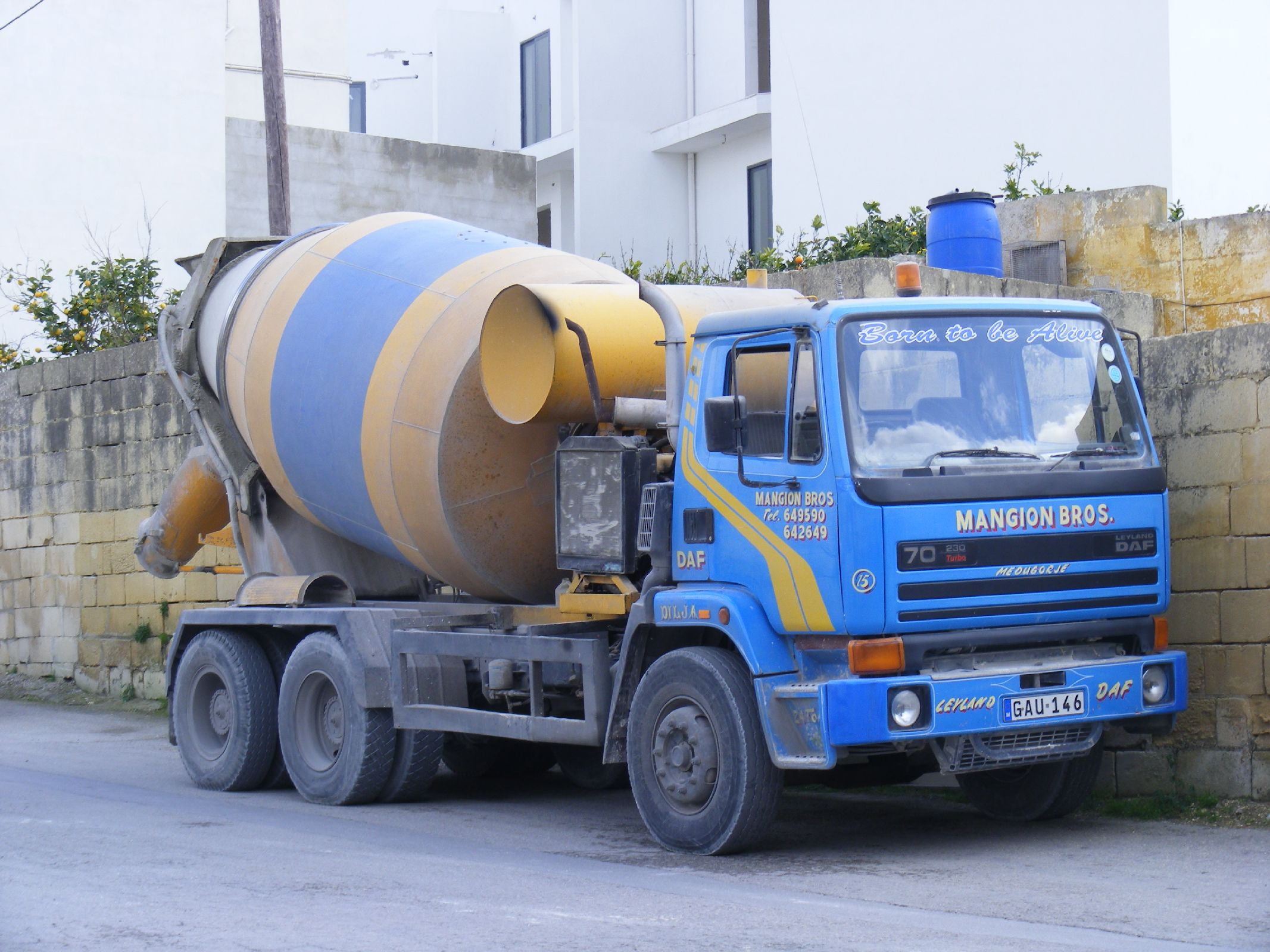 Born to be alive.